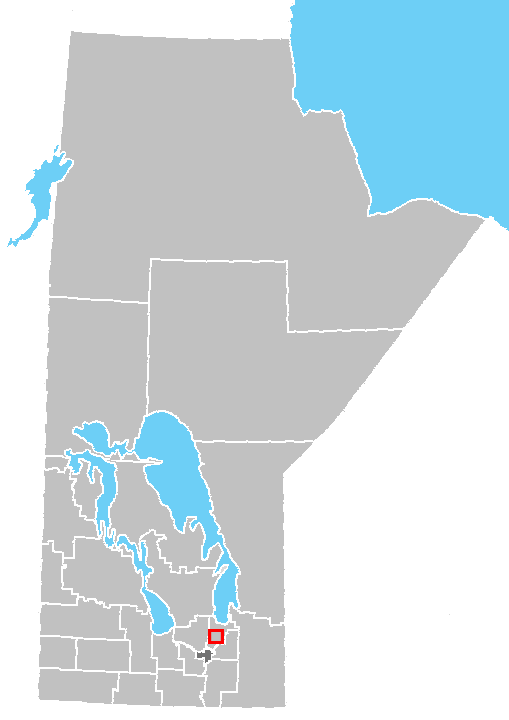 Location of Portage la Prairie, Manitoba